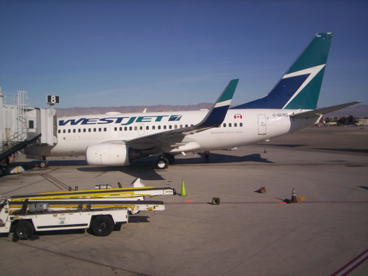 WestJet Boeing 737 at Palm Springs International Airport